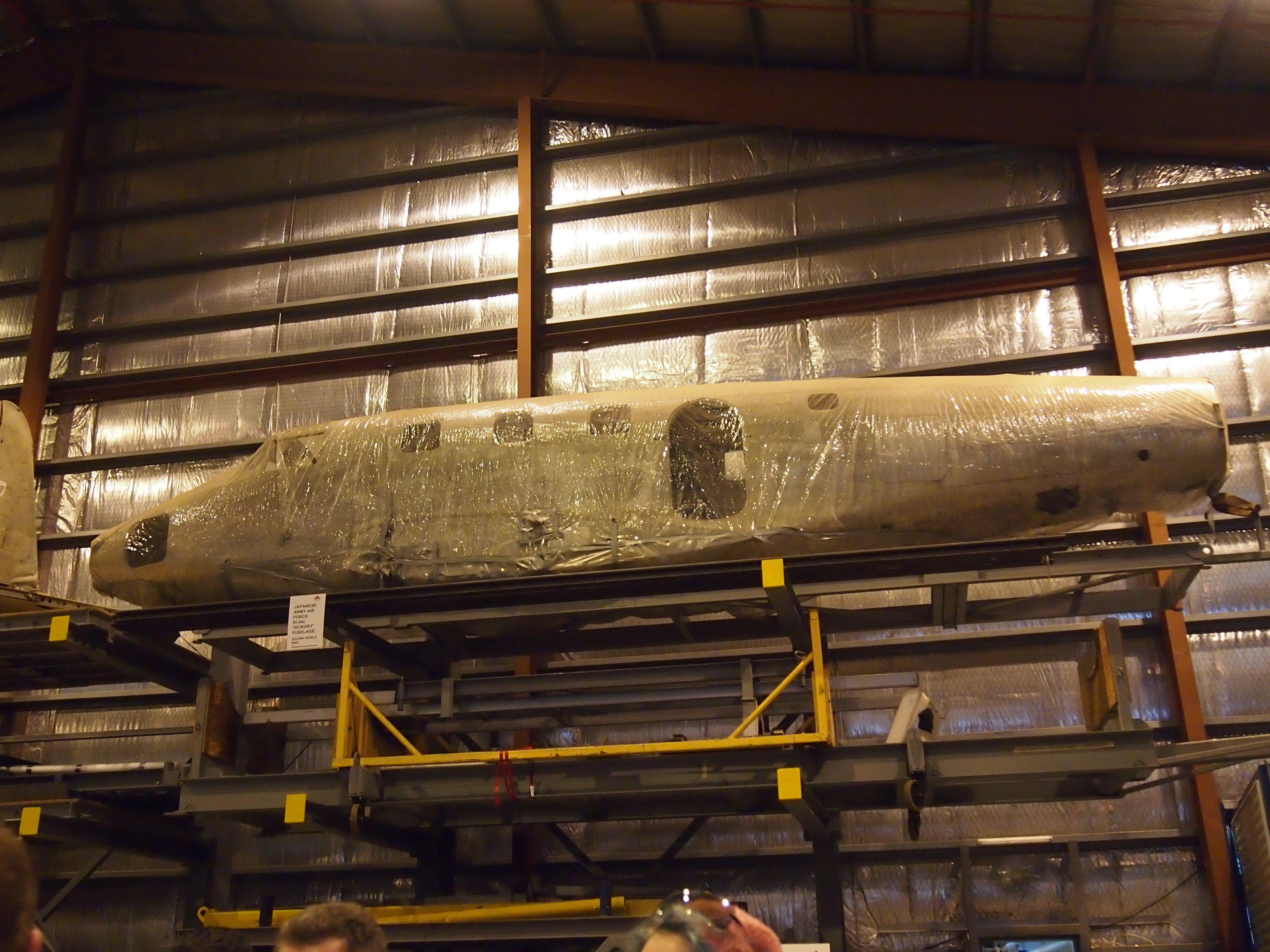 The fuselage of a Ki-54 aircraft in storage at the Australian War Memorial's Treloar Technology Centre